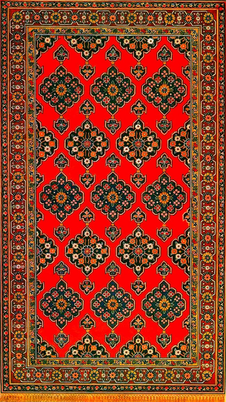 Karabakh rug, Karabakh school, XVIII c.